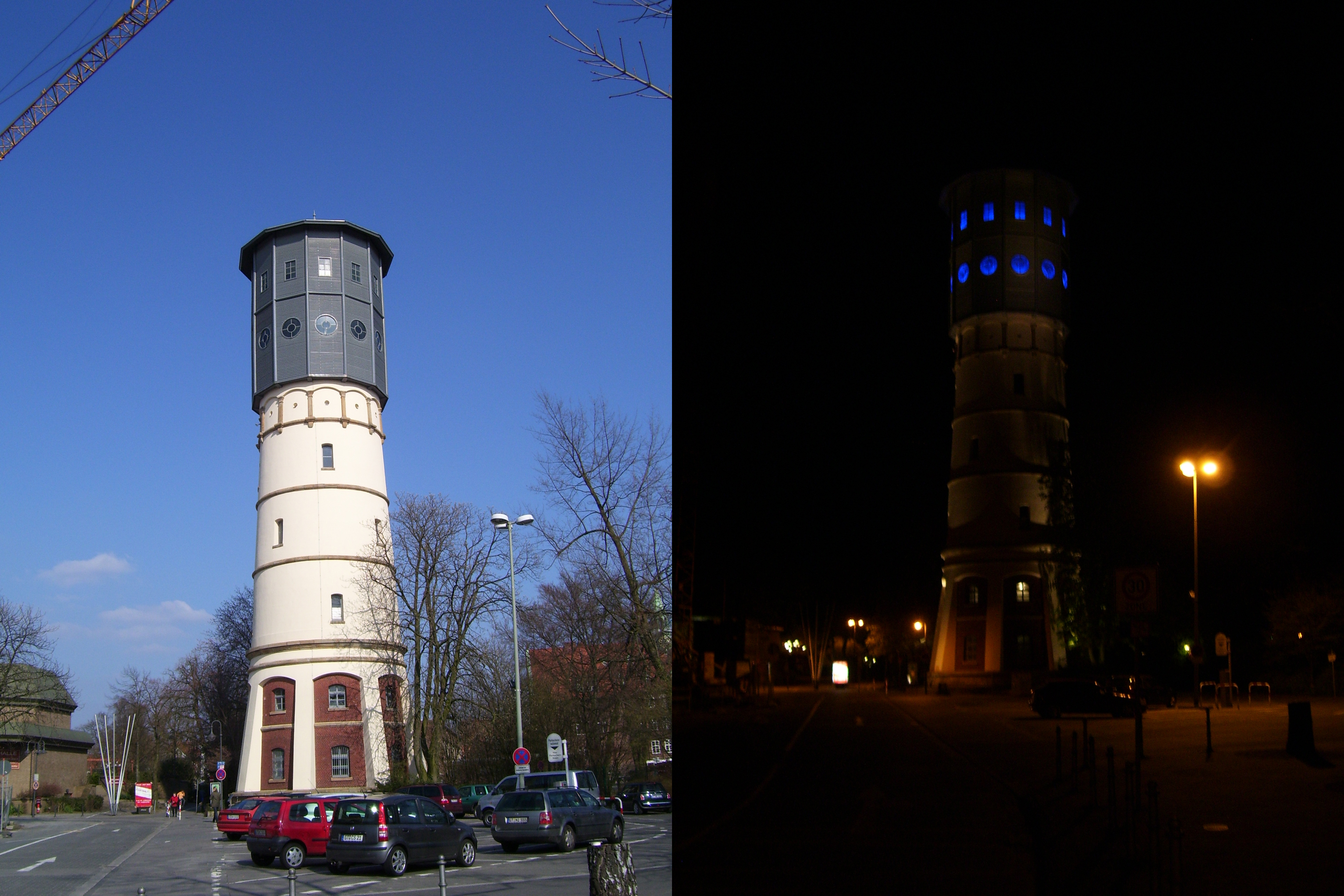 Wasserturm (water tower) in Gütersloh, combination of files Guetersloh_Wasserturm_1.jpg and Guetersloh_Wasserturm_2.jpg This is a photograph of an architectural monument.